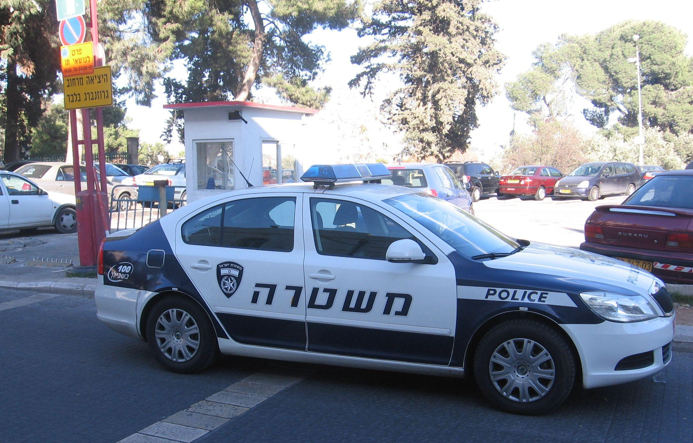 An Israel police squad car with a new paint scheme (December 2009).